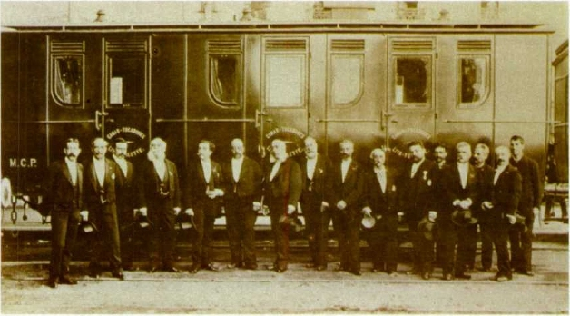 Several Spanish and Portuguese personalities of railways pose in front of the first sleeper carriage that circulated between Lisbon and Madrid, at the service of the Compañía de los Ferrocarriles de Madrid to Cáceres y Portugal, in 1885.